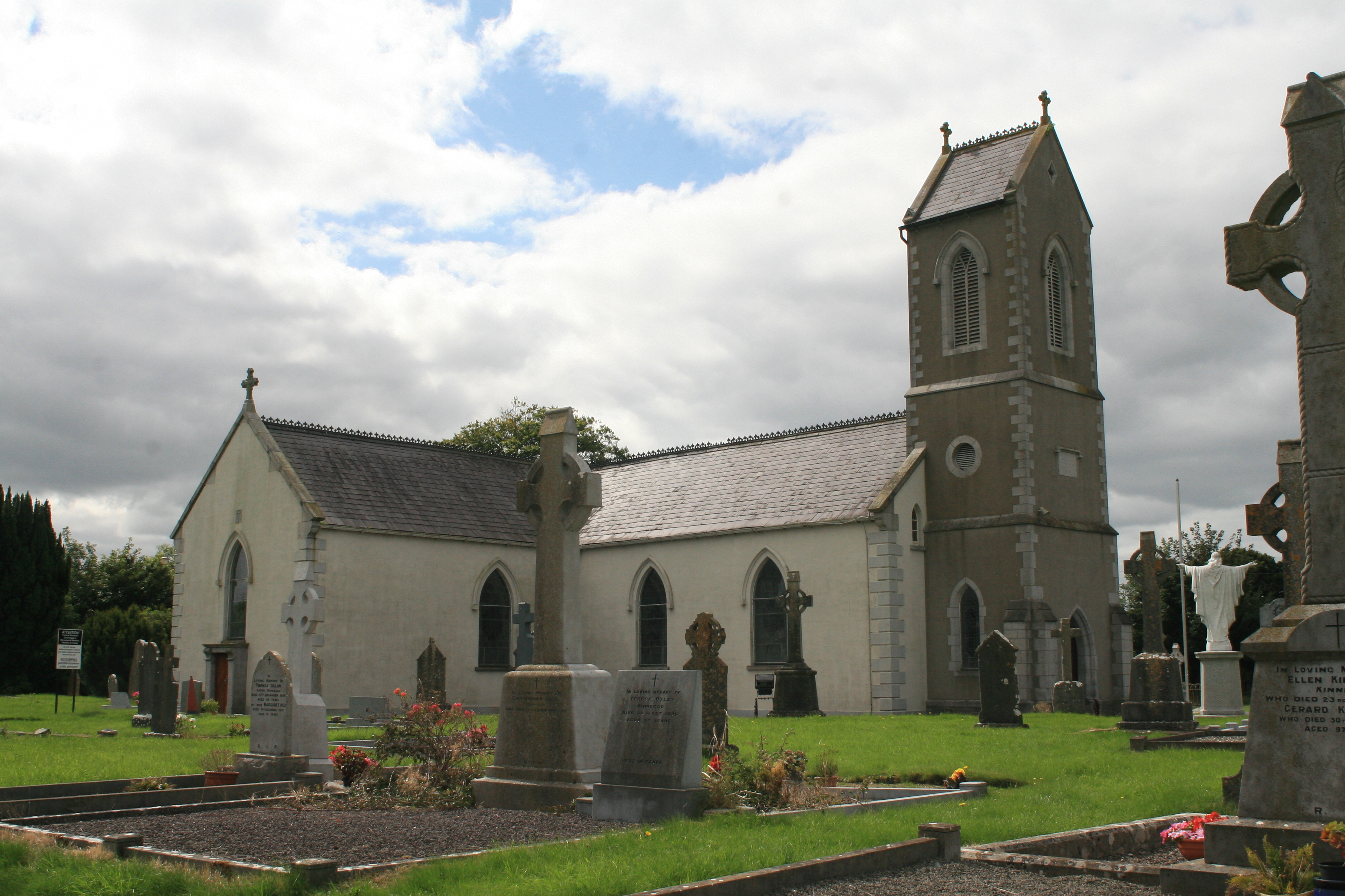 Clonard, County Meath, Ireland RC church of St. Finian in Clonard